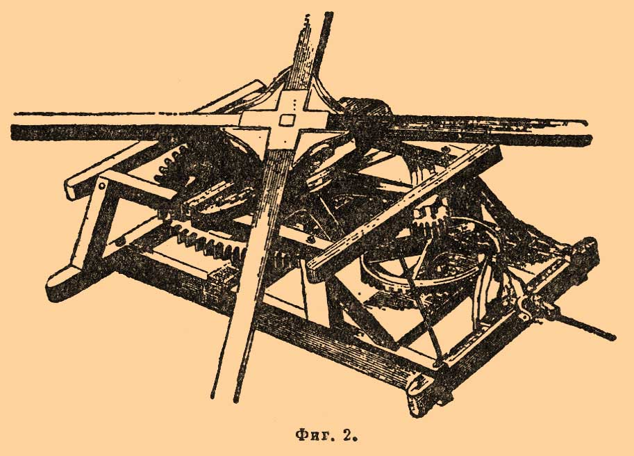 Illustration from Brockhaus and Efron Encyclopedic Dictionary (1890—1907)